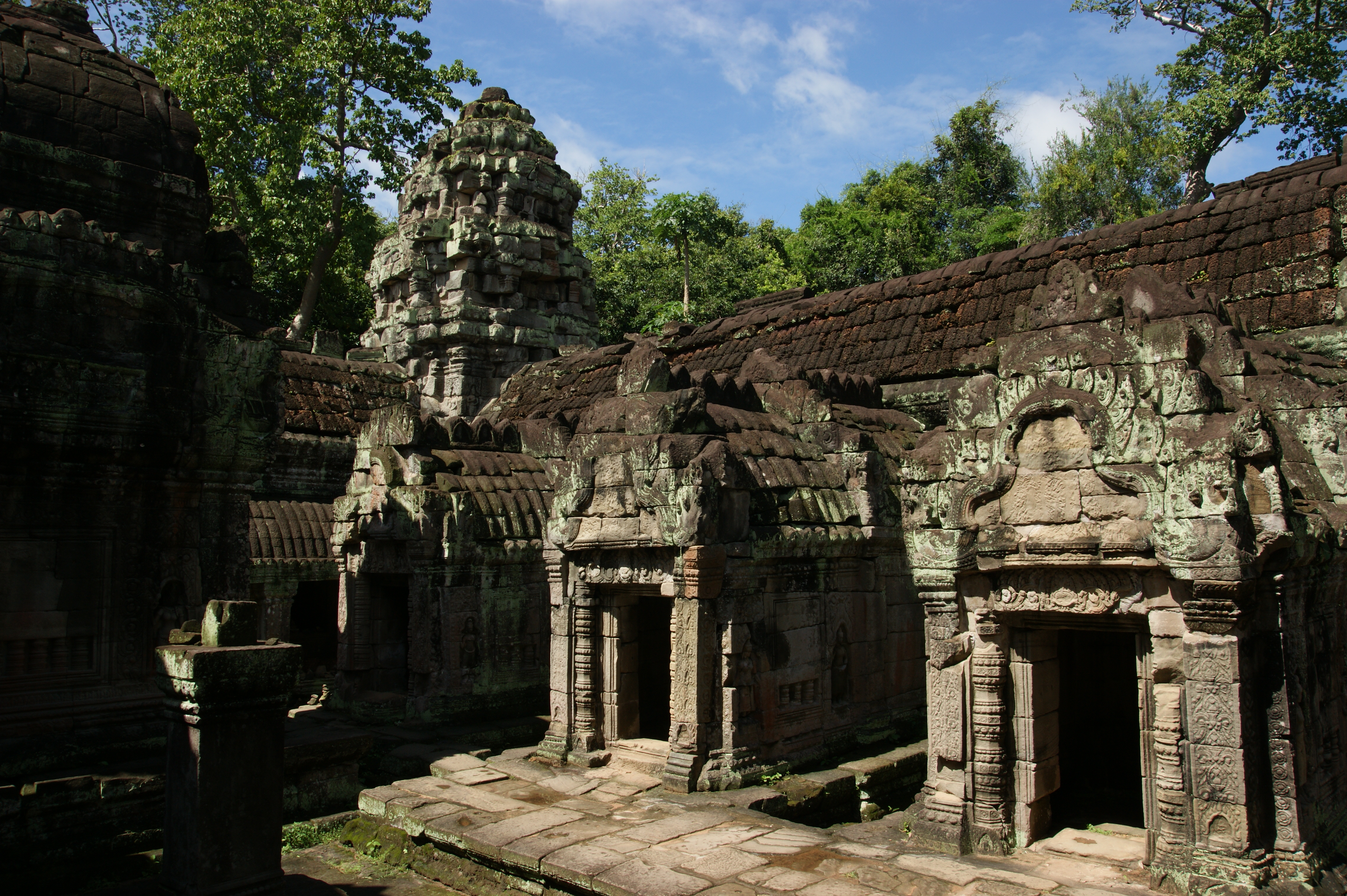 A view of the ruins of the temple of Preah Khan at Angkor in Cambodia. Preah Khan was built by the powerful Khmer king Jayavarman VII in the late 12th century who dedicated it to his father, Dharanindravarman II.